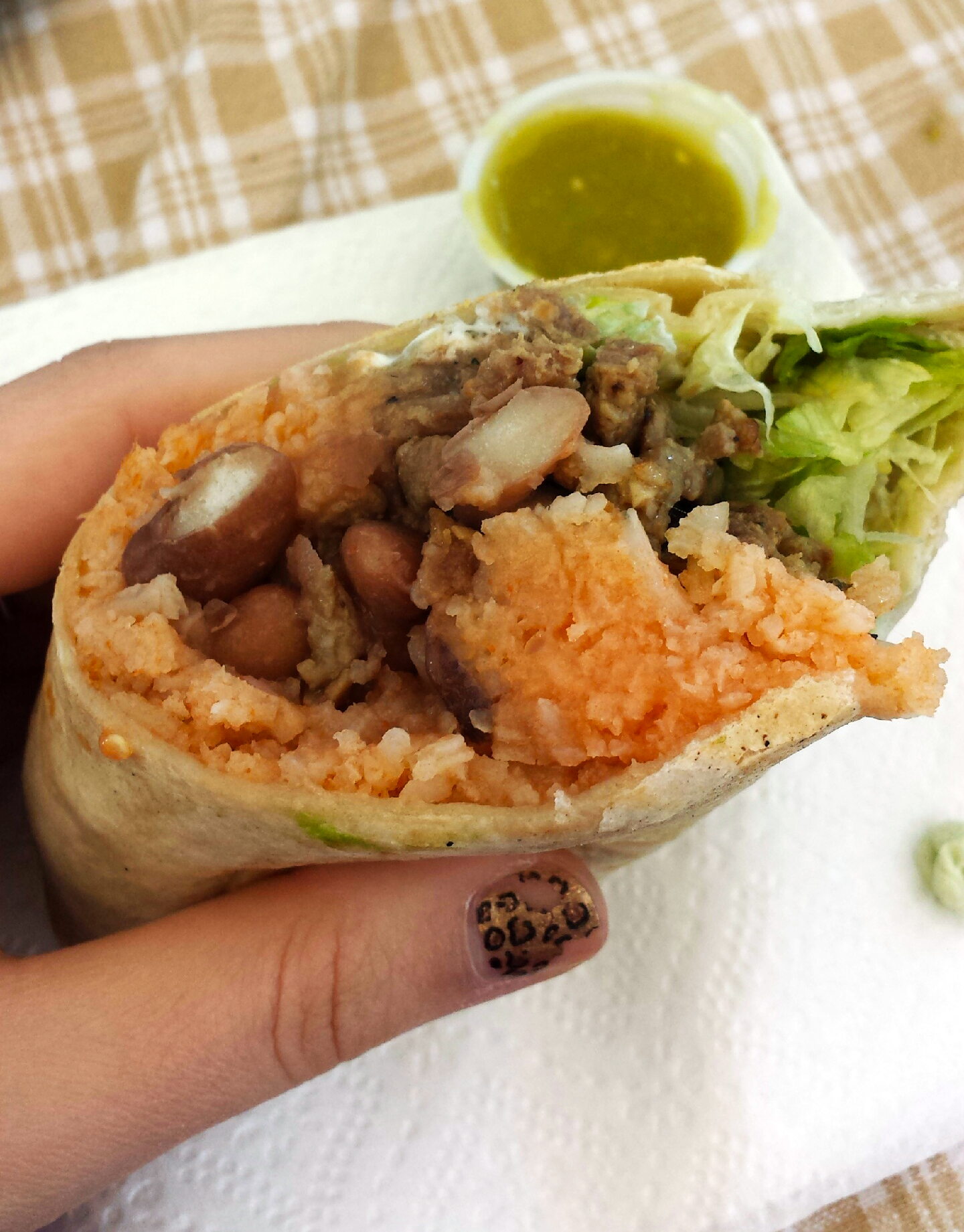 Burrito de asada, a popular meal offered at the Pasco Flea Market. Taken by Madison Rosenbaum.